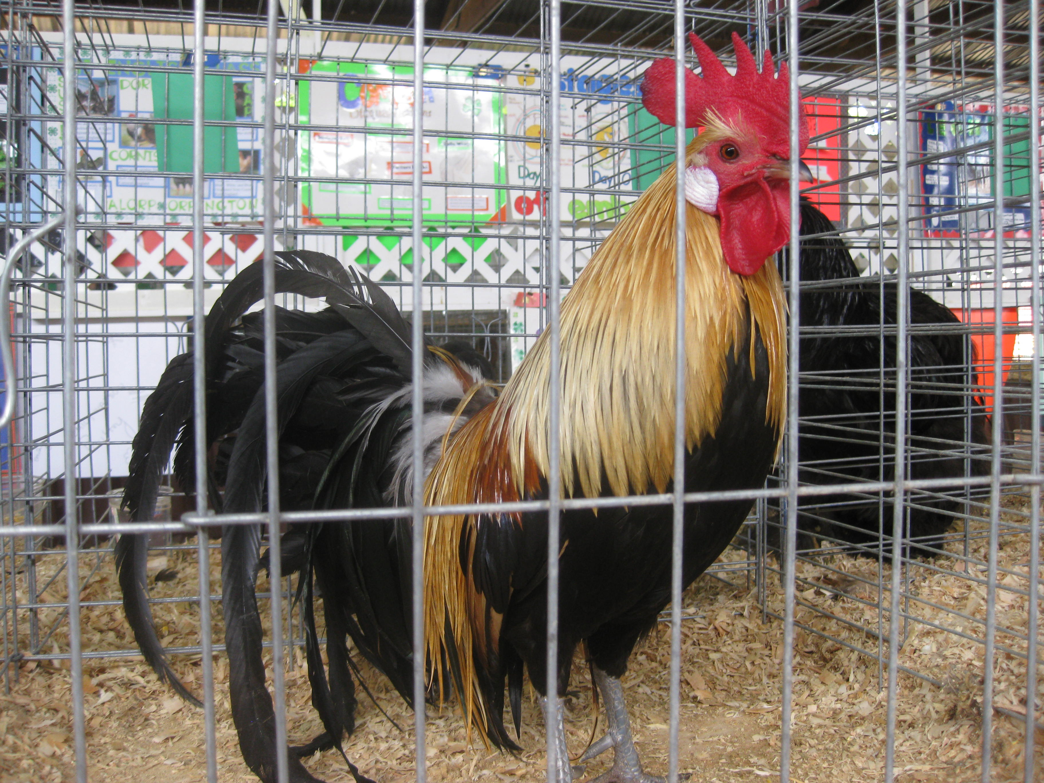 A Phoenix rooster at a county fair in Washington